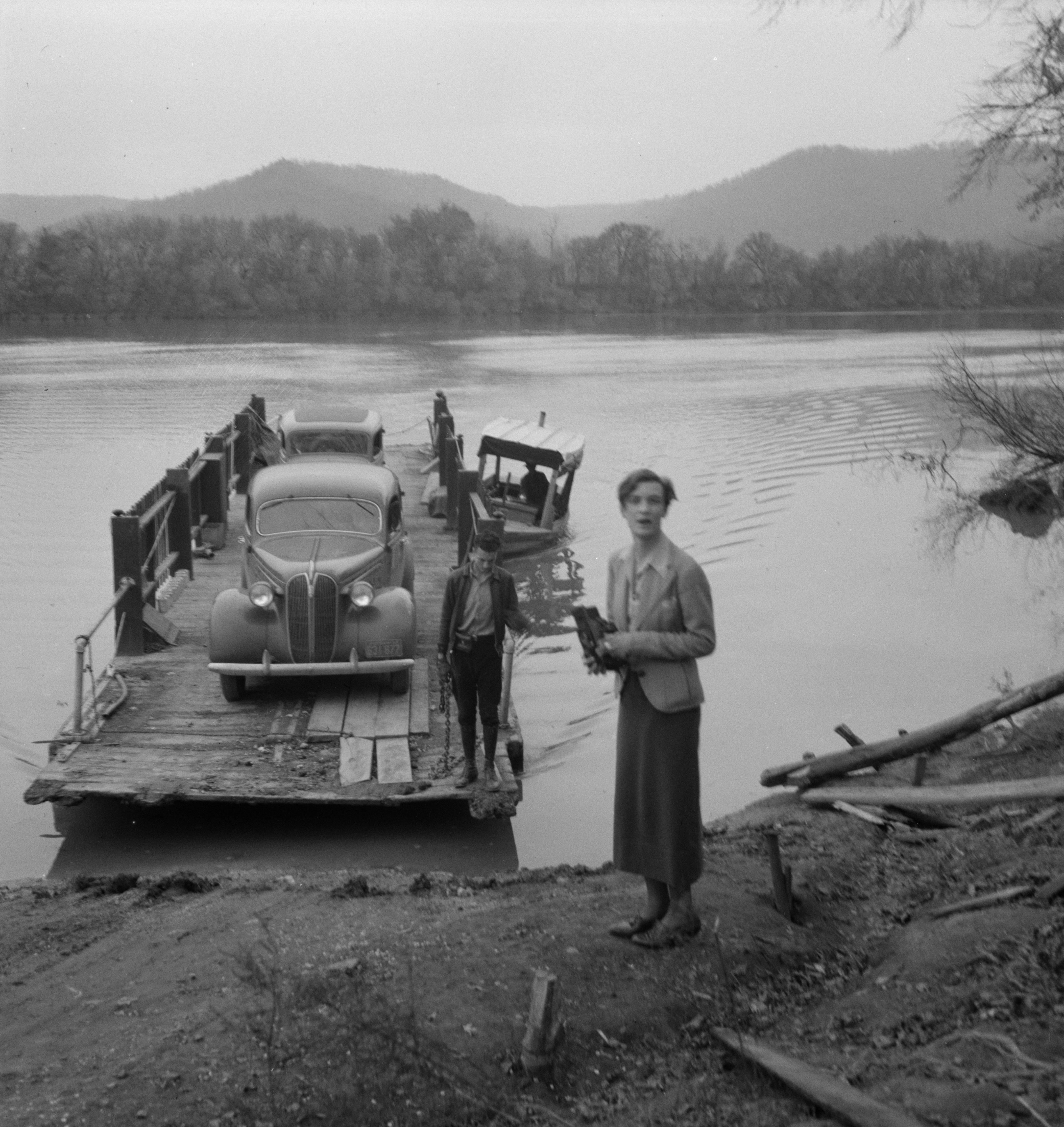 Circa-1941 photograph of a ferry preparing to carry a car across an unnamed river in Tennessee.